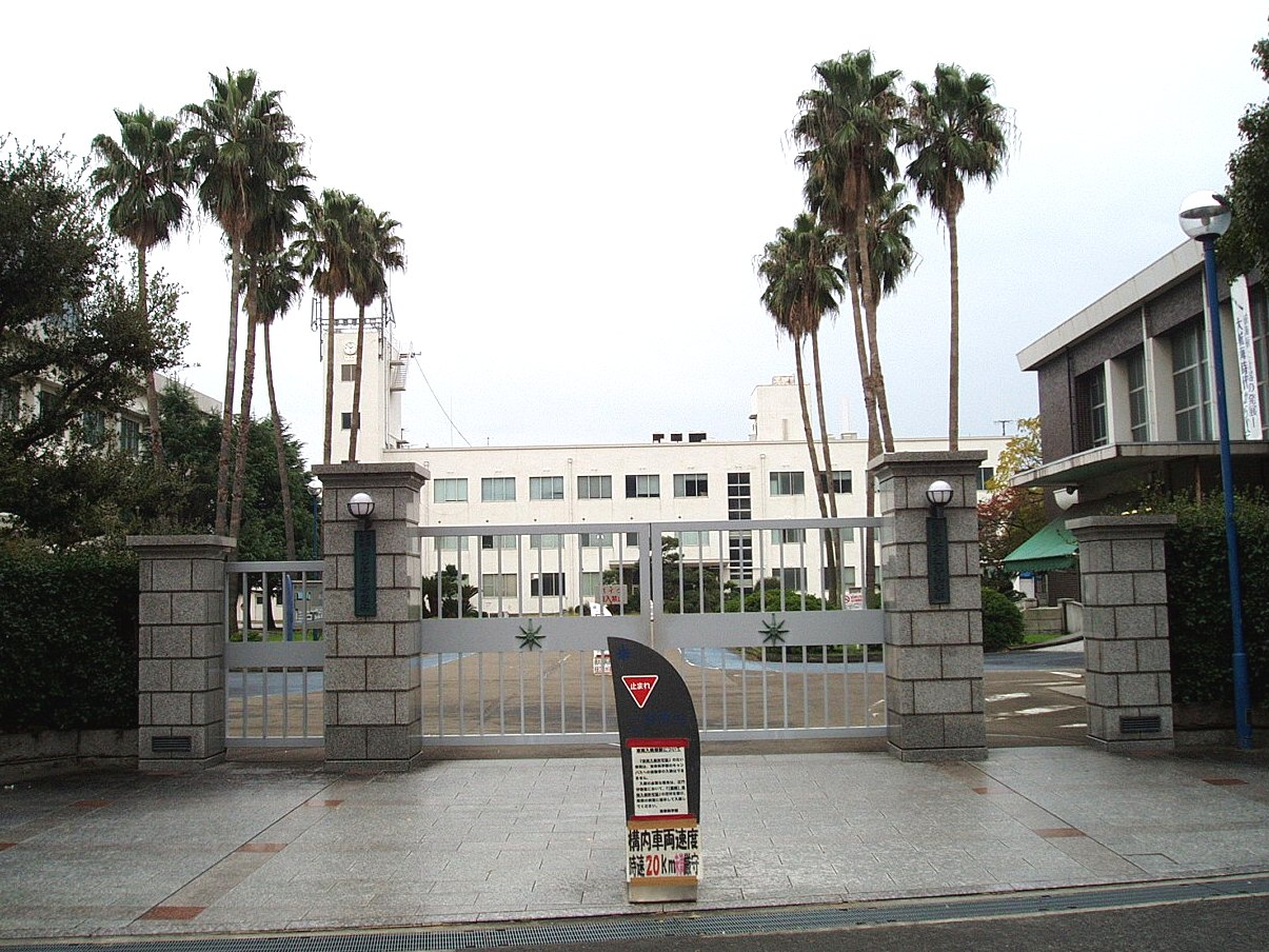 The main gate of Fukae Campus (Faculty of Maritime Sciences), Kobe University. Located in Higashinada-ku, Kobe, Hyogo, Japan.